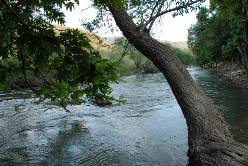 A shot of the Litani River in Southern Lebanon.